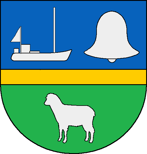 Coat of arms of the municipality Tümlauer-Koog in Schleswig-Holstein, Germany.